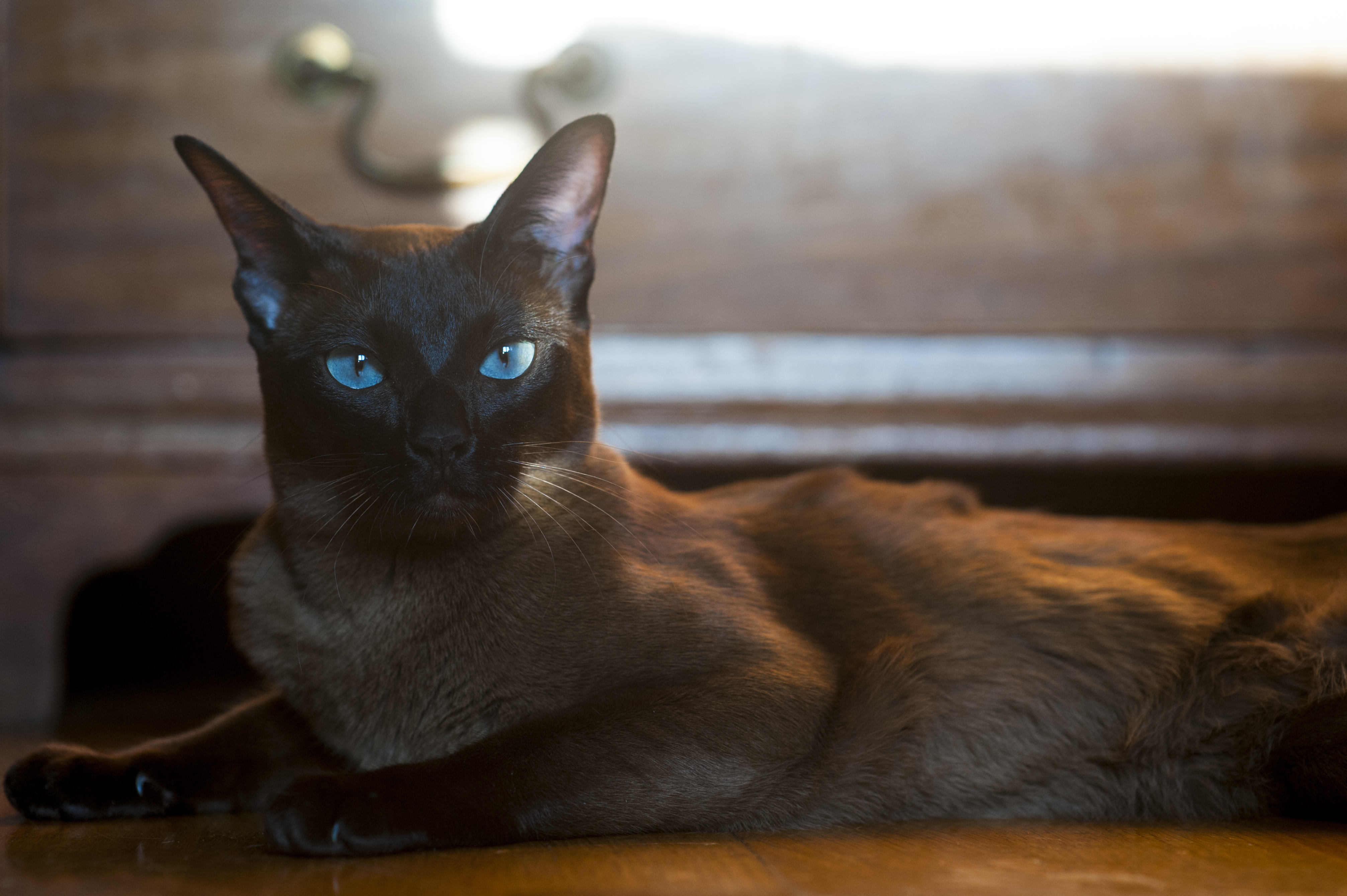 18 months old European female Burmese.